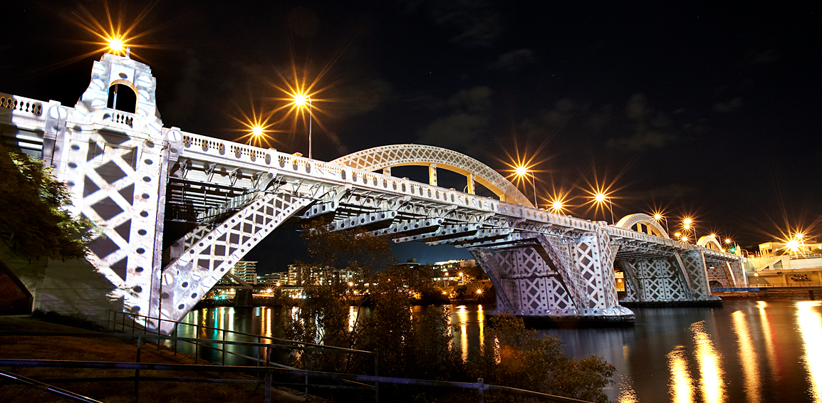 By Ian De Gruchy (2009) This projection formed the metal ‘skeleton’ of the bridge under the concrete, closely resembling a meccano set. The artist was inspired by prominent Brisbane civil engineer Harding Frew, commissioned from 1926 to 1932 by Brisbane City Council as Bridge Engineer for the design of the bridge. Frew designed the bridge with a series of bow-string steel sections built using a Swiss system of concrete-sprayed steel (gunite). Frew was originally criticized for his design because he used innovative practices for spraying the arch concrete over the steel.